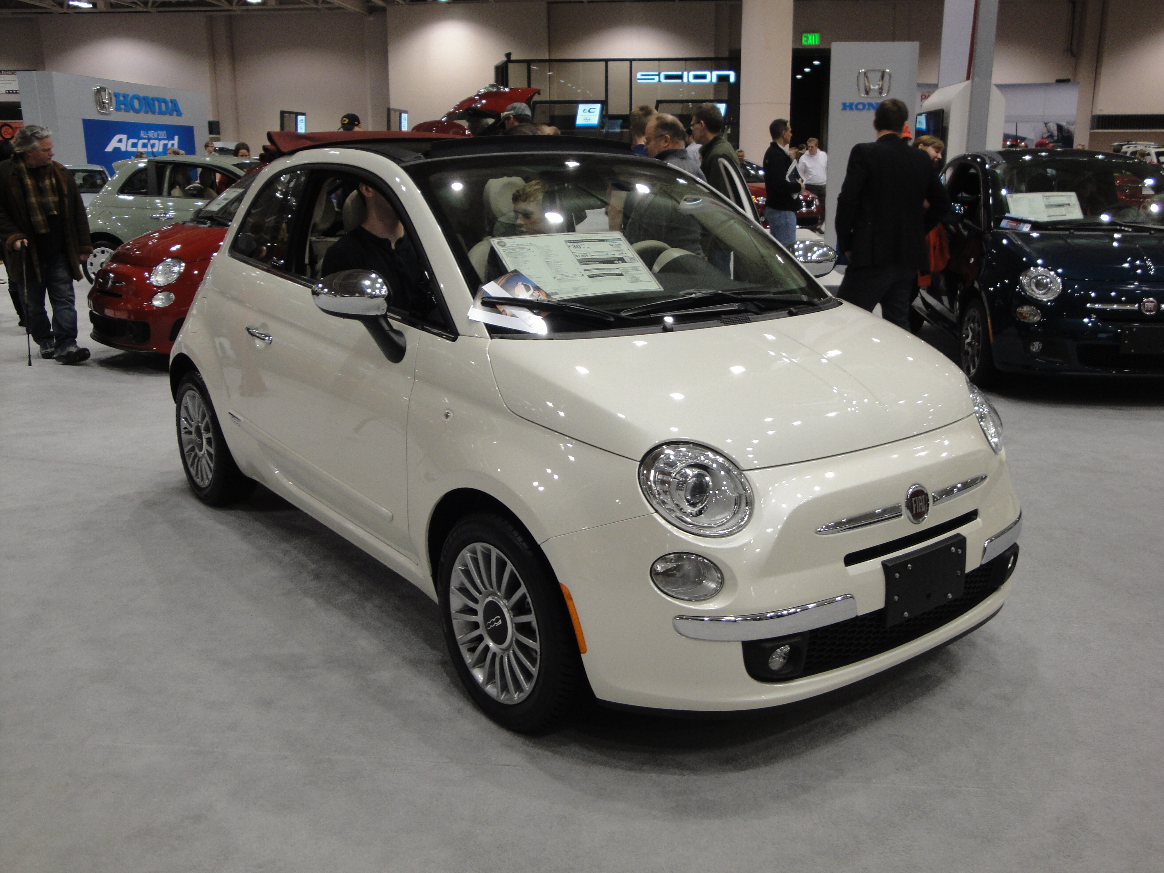 40th Annual Twin Cities Auto Show March 2013 Minneapolis Convention Center